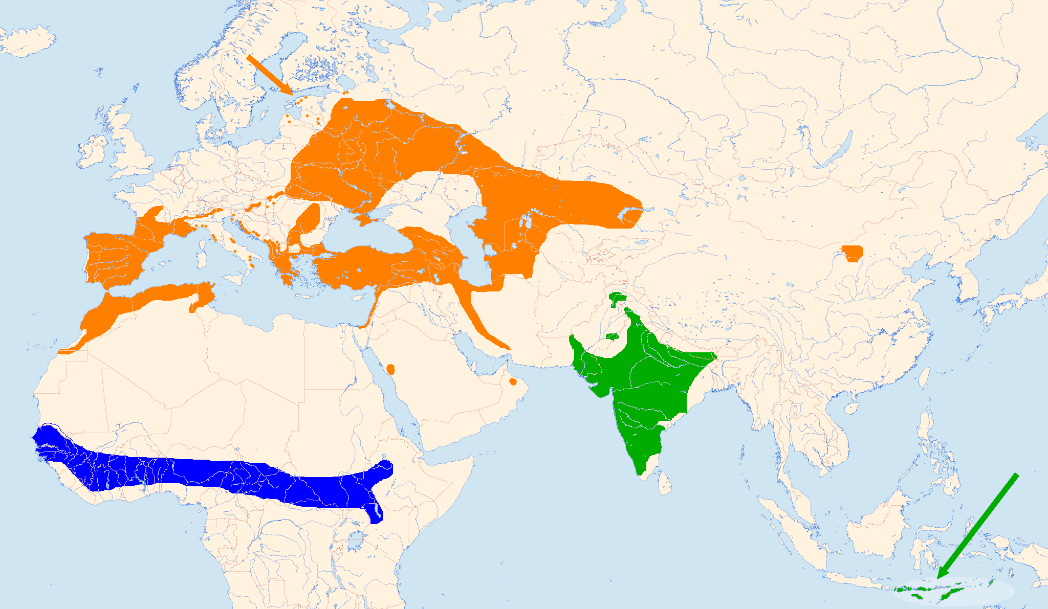 Circaetus gallicus - Range Map